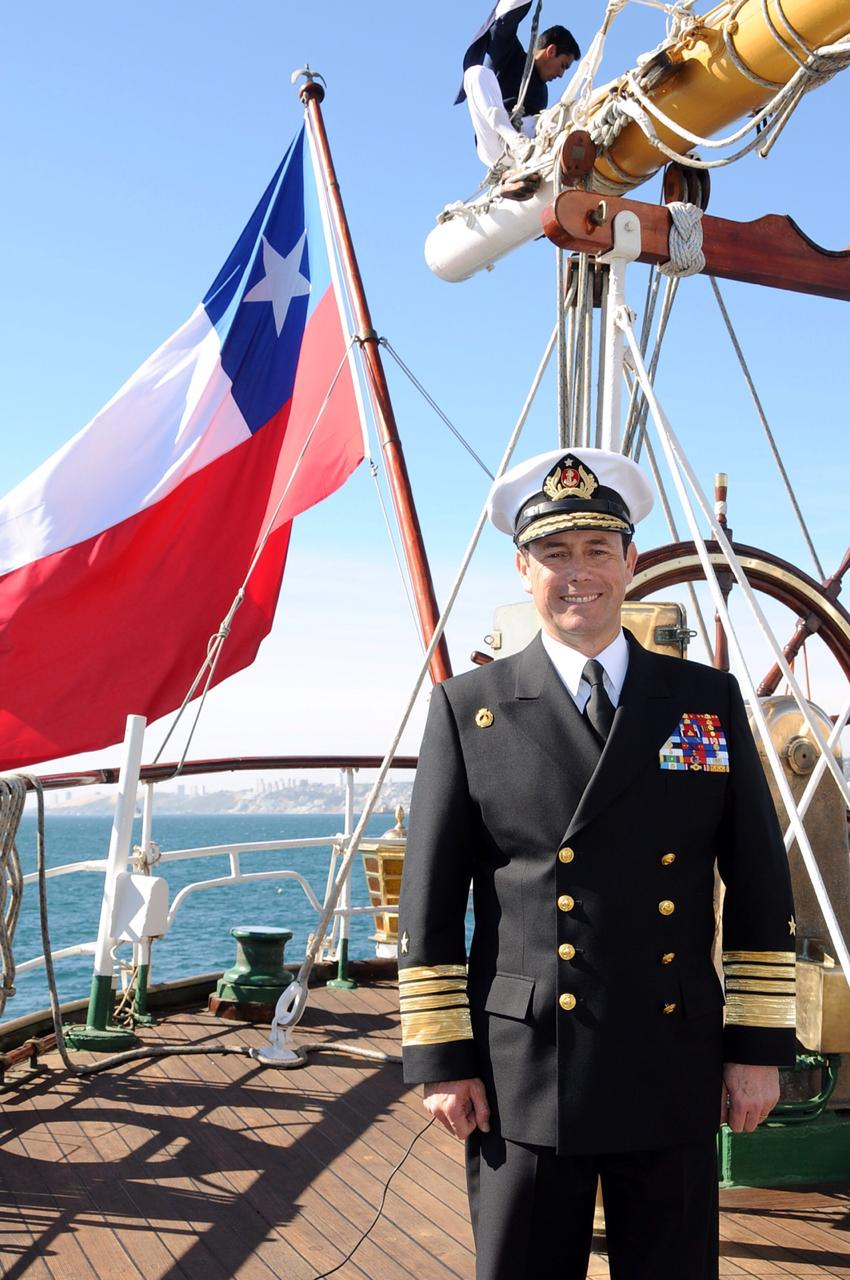 Almirante González a bordo de su último mando.